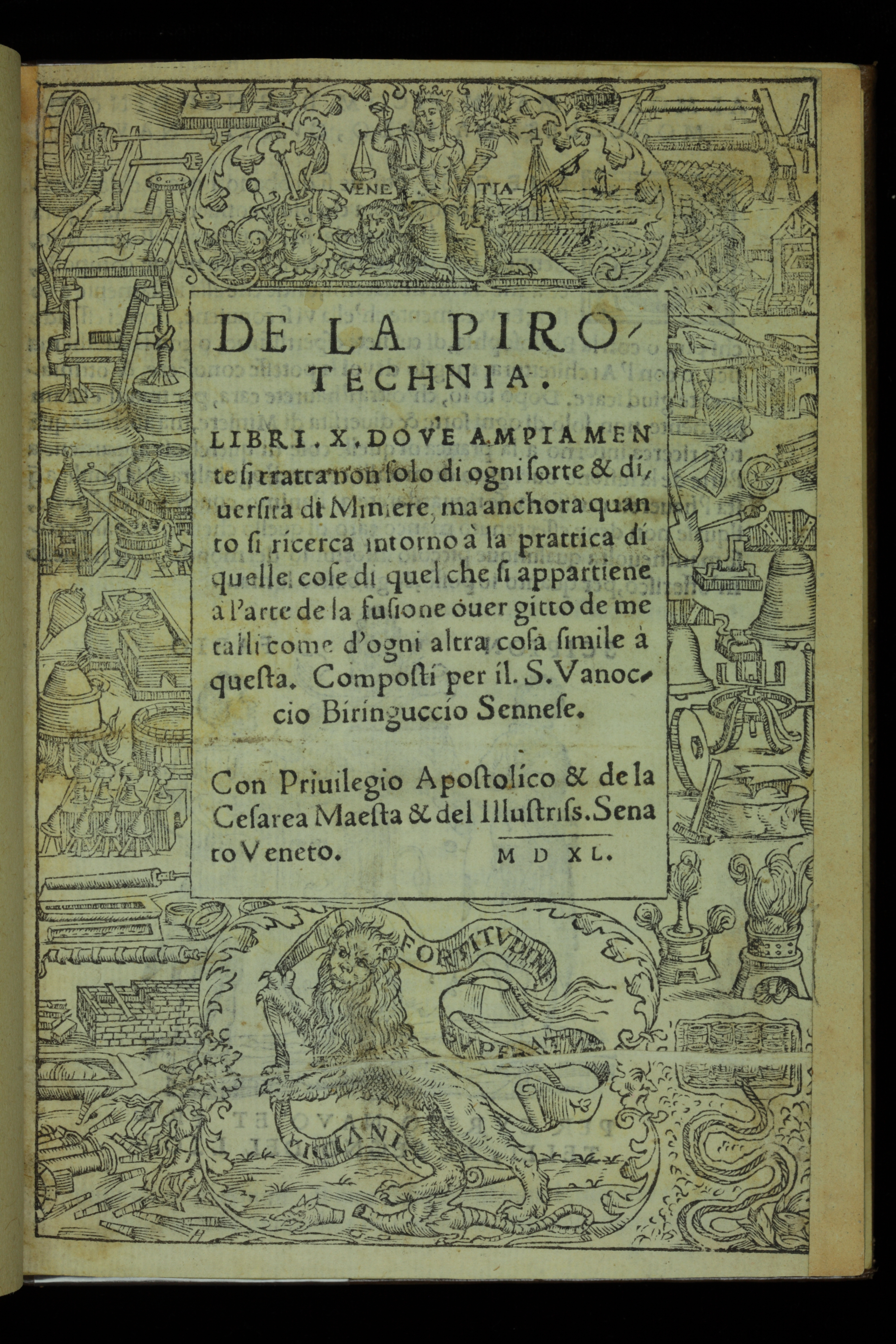 Title page from De la pirotechnia : libri .x. dove ampiamente si tratta non solo di ogni sorte et diversita di miniere, ma anchora quanto si ricerca intorno à la prattica di quelle cose di quel che si appartiene à l'arte de la fusione ouer gitto de metalli come d'ogni altra cosa simile à questa / composti per il s. Vanoccio Biringuccio Sennese. Con privilegio apostolico et de la Cesarea Maesta et del illustriss. Senato veneto. by Vannoccio Biringucci (1480-1539?) Veneto : Venturino Roffinello, 1540. Title page with woodcut border illustrating uses of "pyrotechnics" in mining, smelting, and artillery. Central text is surrounded by drawings of apparatus, with alchemical figures at head and foot. Far from being merely an esoteric pursuit of solitary scholars, alchemy played an essential role in important commercial enterprises. Burgeoning commercial investment in mining fed a surge in metallurgical publications.